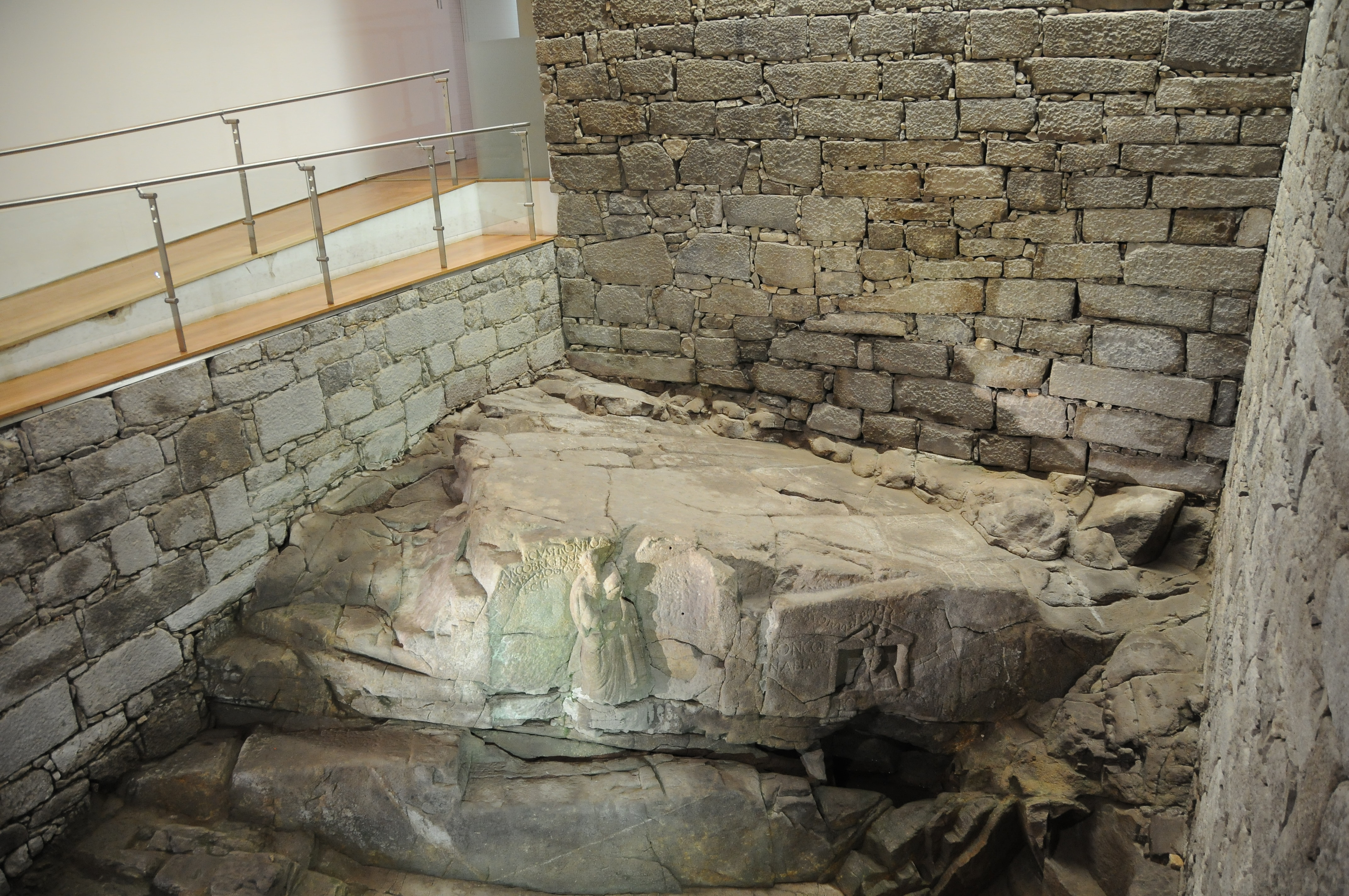 The Fountain of the Idol is a Roman fountain located in the civil parish of São José de São Lázaro, in the municipality of Braga, northern Portugal.